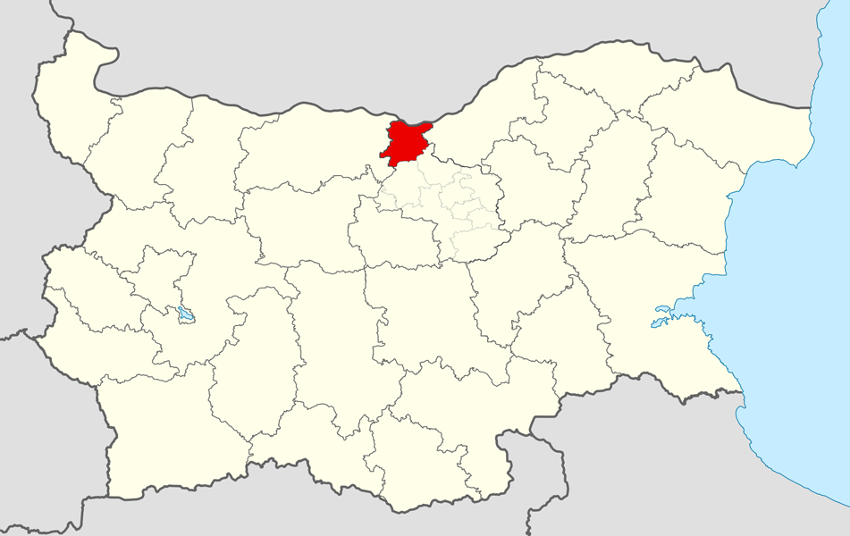 Location map of Svishtov Municipality within Bulgaria and Veliko Tarnovo Province. Equirectangular projection, N/S stretching 130 %. Geographic limits of the map: N: 44.4° N S: 41.1° N W: 22.1° E E: 28.9° E